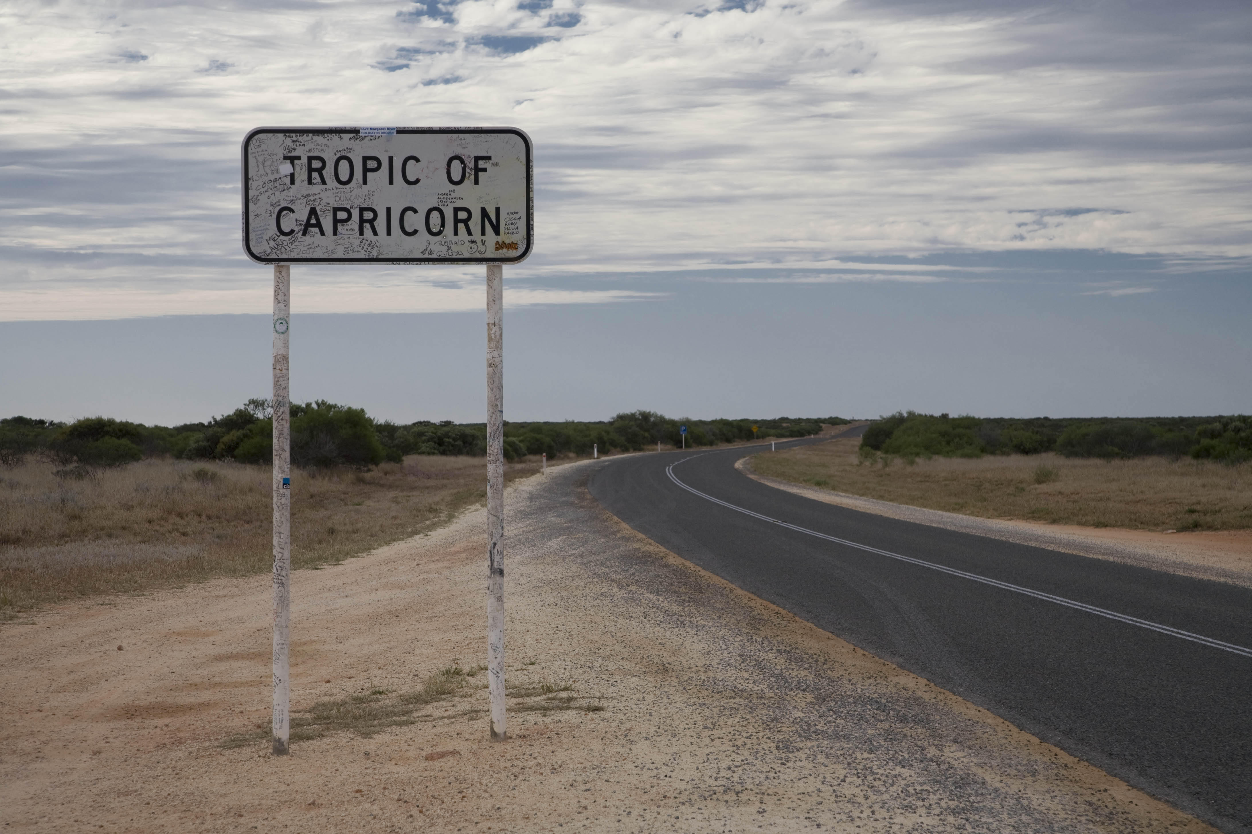 Street Sign in Western Australia